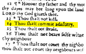 A section of a page from the Wicked Bible of 1631. The image is not copyrighted due to the age of the work. The section highlights a contemporary typographical error insofar as it omits the word "not" from the commandment "Thou shalt not commit adultery".